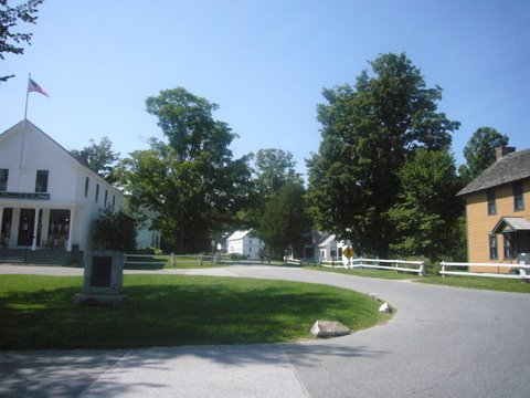 A photo of Plymouth Notch, Vermont, USA. The village is part of the President Calvin Coolidge Homestead District. Coolidge was born in the back of the general store in the foreground and grew up across the street in the Coolidge homestead. He worshiped at the church behind the general store and the Coolidge family founded the cheese company, which is still operative and seen in the distance.